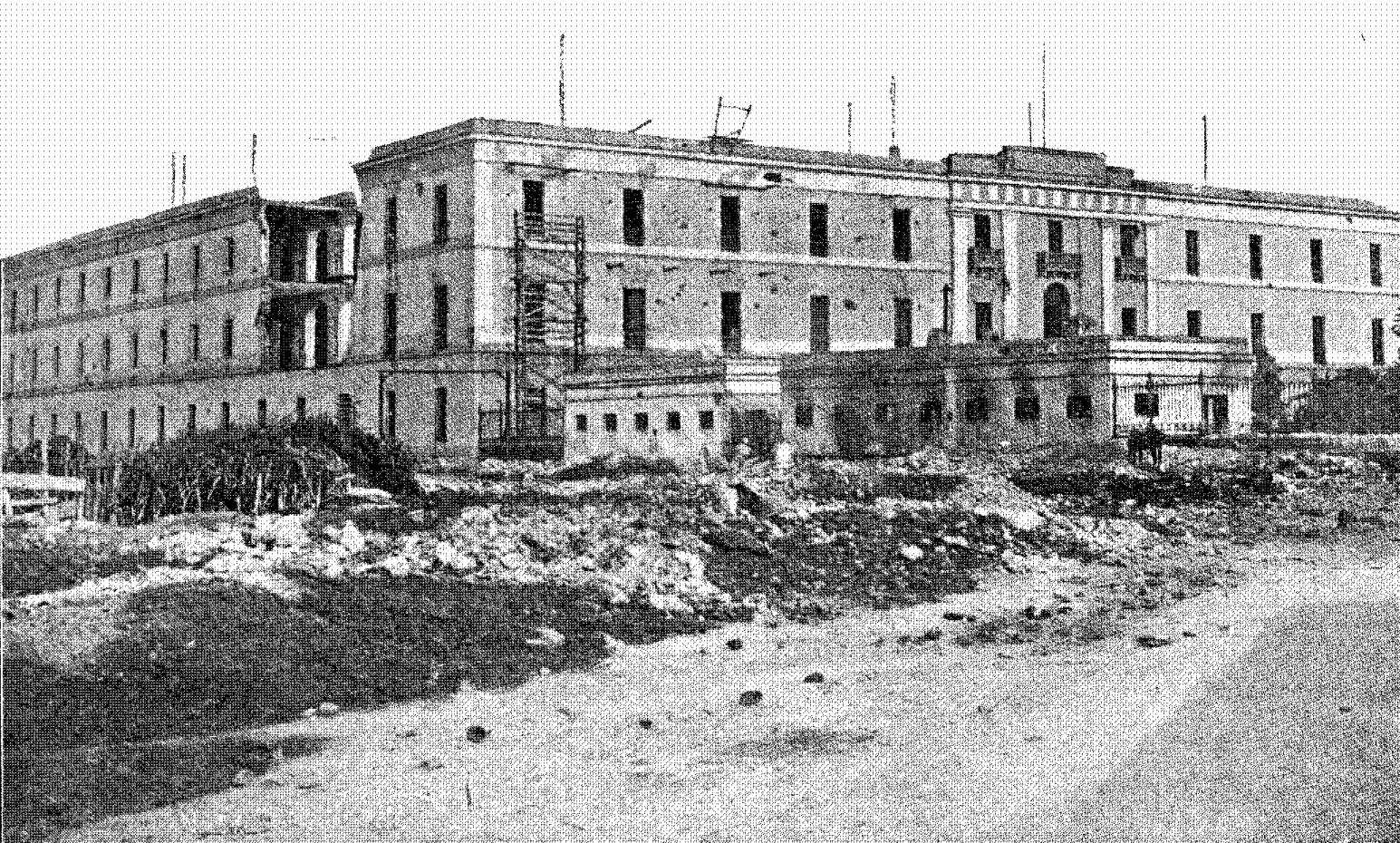 The damage inflicted on the Spanish barracks at San Juan after the May 12, 1898 battle.